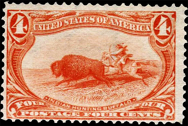 4-cent 1898 commemorative United States postage stamp, depicting "Indian Hunting Buffalo". Part of the Trans-Mississippi Exposition commemorative series.